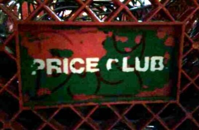 A former Price Club shopping cart pictured in Riverside, California. The photograph was taken with an LG EnV2 mobile phone camera and edited (for sharpness, saturation, brightness and contrast) using ArcSoft PhotoStudio 5.5